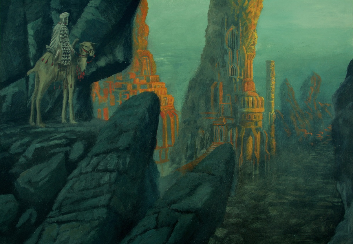 Concept of the romantic picture of Irem/Iram, City of Pillars, of arabian mythology